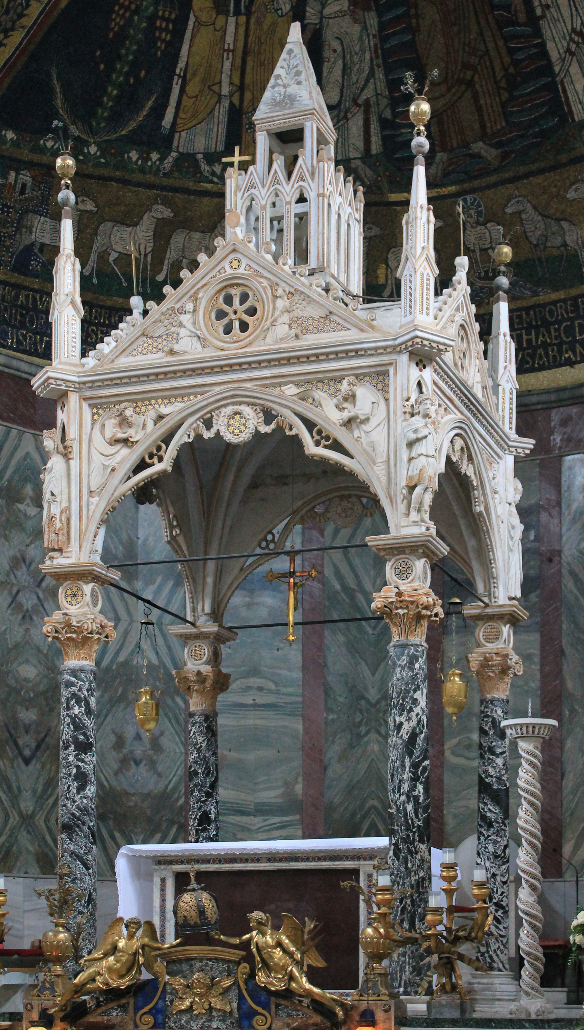 The altar canopy attributed to Arnolfo di Cambio